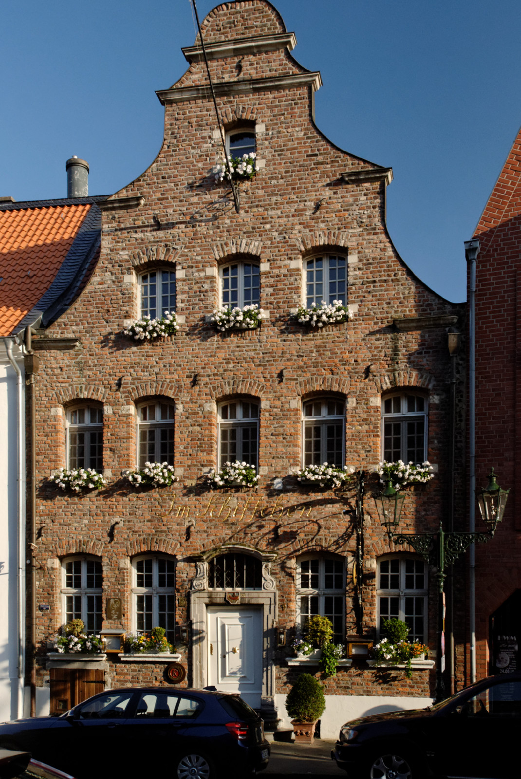 Building Kaiserswerther Markt 9 in Düsseldorf-Kaiserswerth, Germany This is a photograph of an architectural monument.